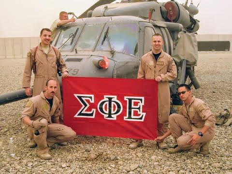 U.S. Army soldiers, presumably members of Sigma Phi Epsilon, display that fraternity's flag in Iraq in 2009.